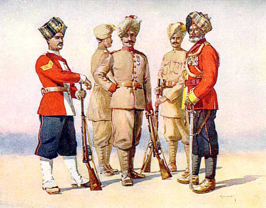 31st and 27th Punjabis. Watercolour by Major Alfred Crowdy Lovett, 1910. Published in MacMunn & Lovett, Armies of India, 1911.